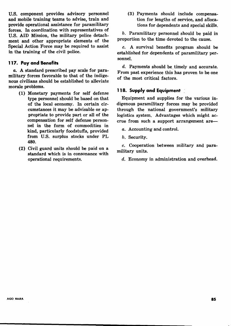 Special Forces manual for organizing, training, and directing paramilitary forces in Central and South America.